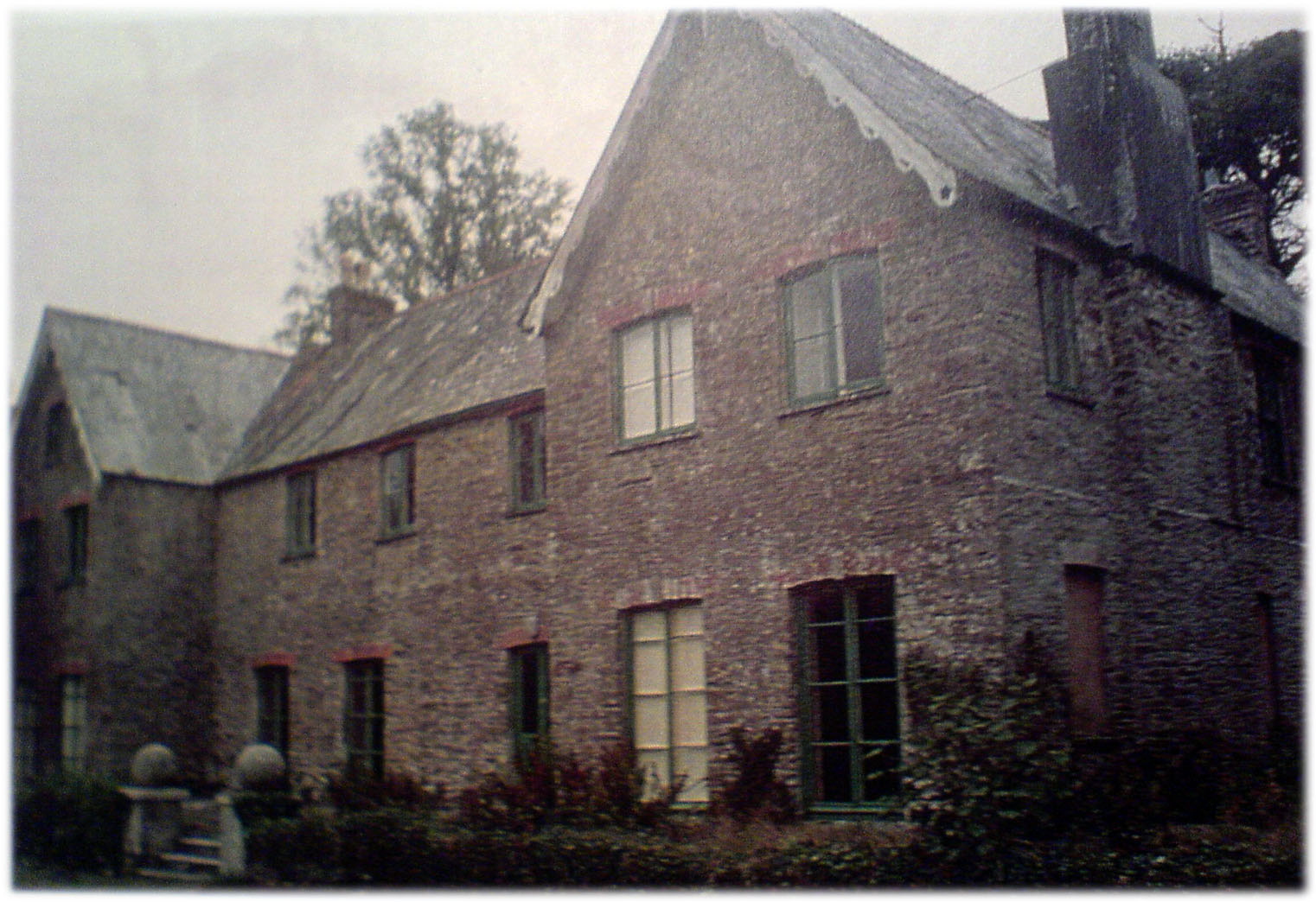 Photo from St Columb Old Cornwall Society archives. With permission of Chairman (myself).